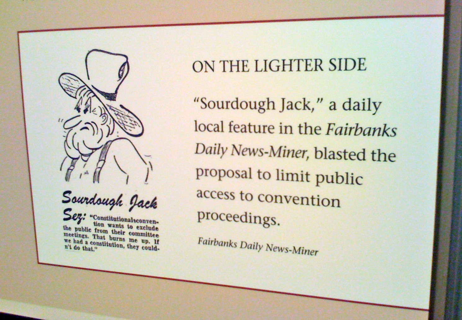 The cartoon character Sourdough Jack is used to illustrate a museum exhibit in Valdez, Alaska about Alaska statehood.